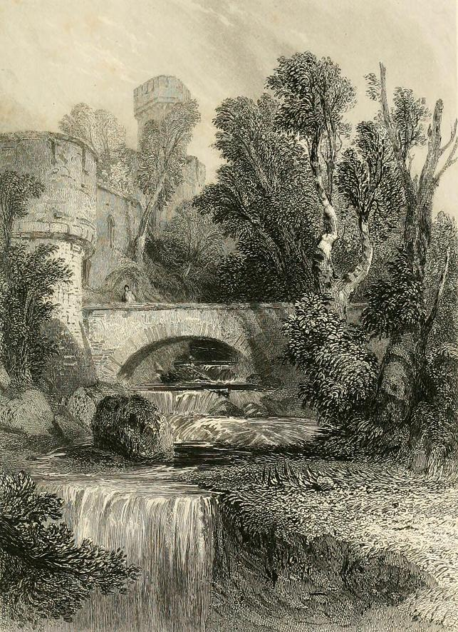 Warwick castle (engraving)